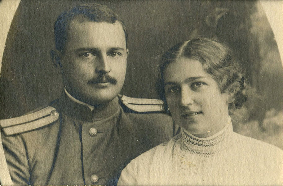 Nikolay Hieronimovich Krause with wife